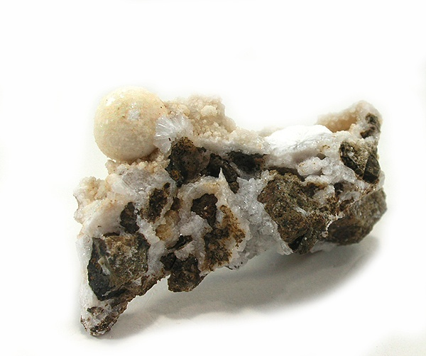 Phillipsite-Na Locality: Palagonia, Northern Iblean plateau, Catania Province, Sicily, Italy (Locality at ) Size: small cabinet, 5.6 x 3.4 x 1.8 cm Phillipsite (rare zeolite) This is a fairly rare member of the zeolite family that at times can have calcium, or potassium, or sodium as its chief constituent. Phillipsite has cemented brecciated rock and formed a series of botryoidal groups, the largest of which measures 1.0 cm across. These spheres are snow white, and lustrous. I am told it is quite good for the locality!